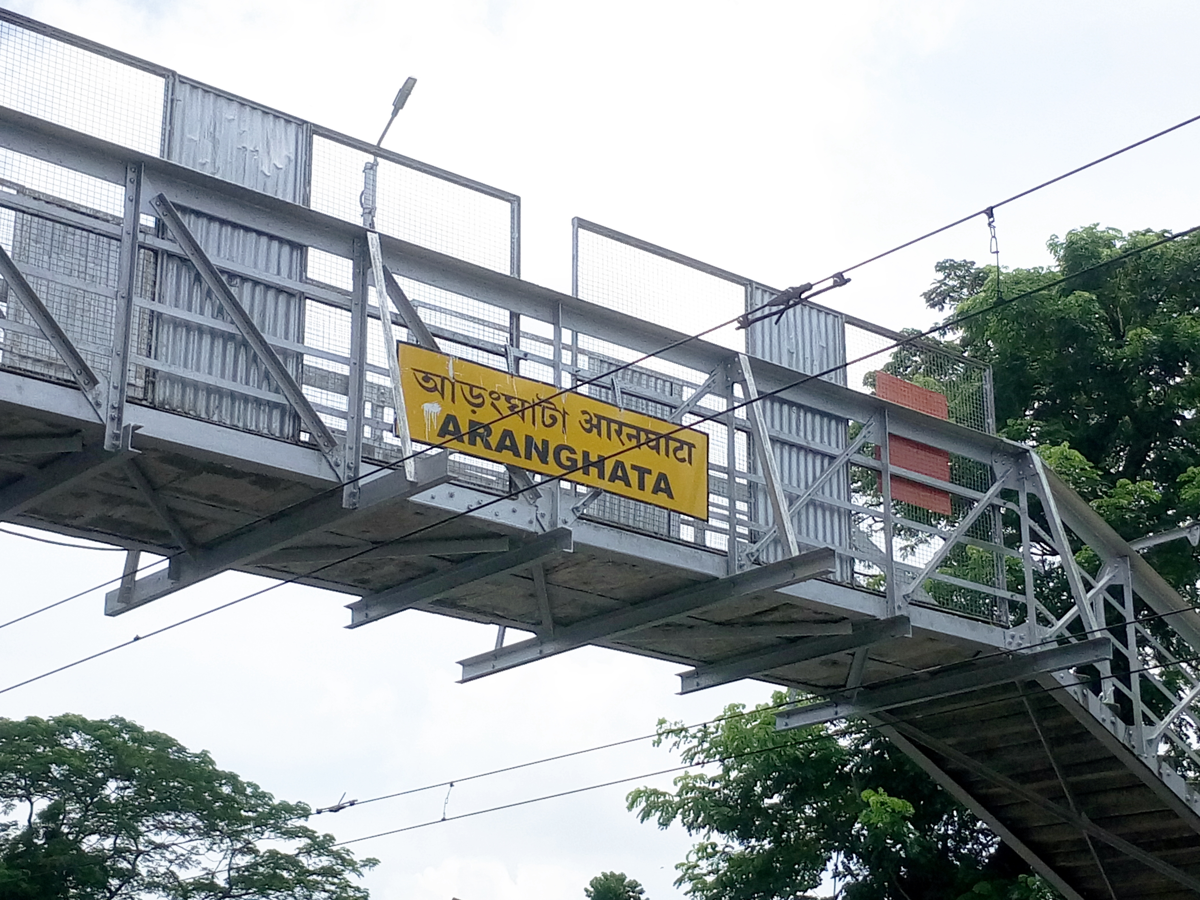 Aranghata railway station on the Ranaghat–Gede line, Nadia, West Bengal